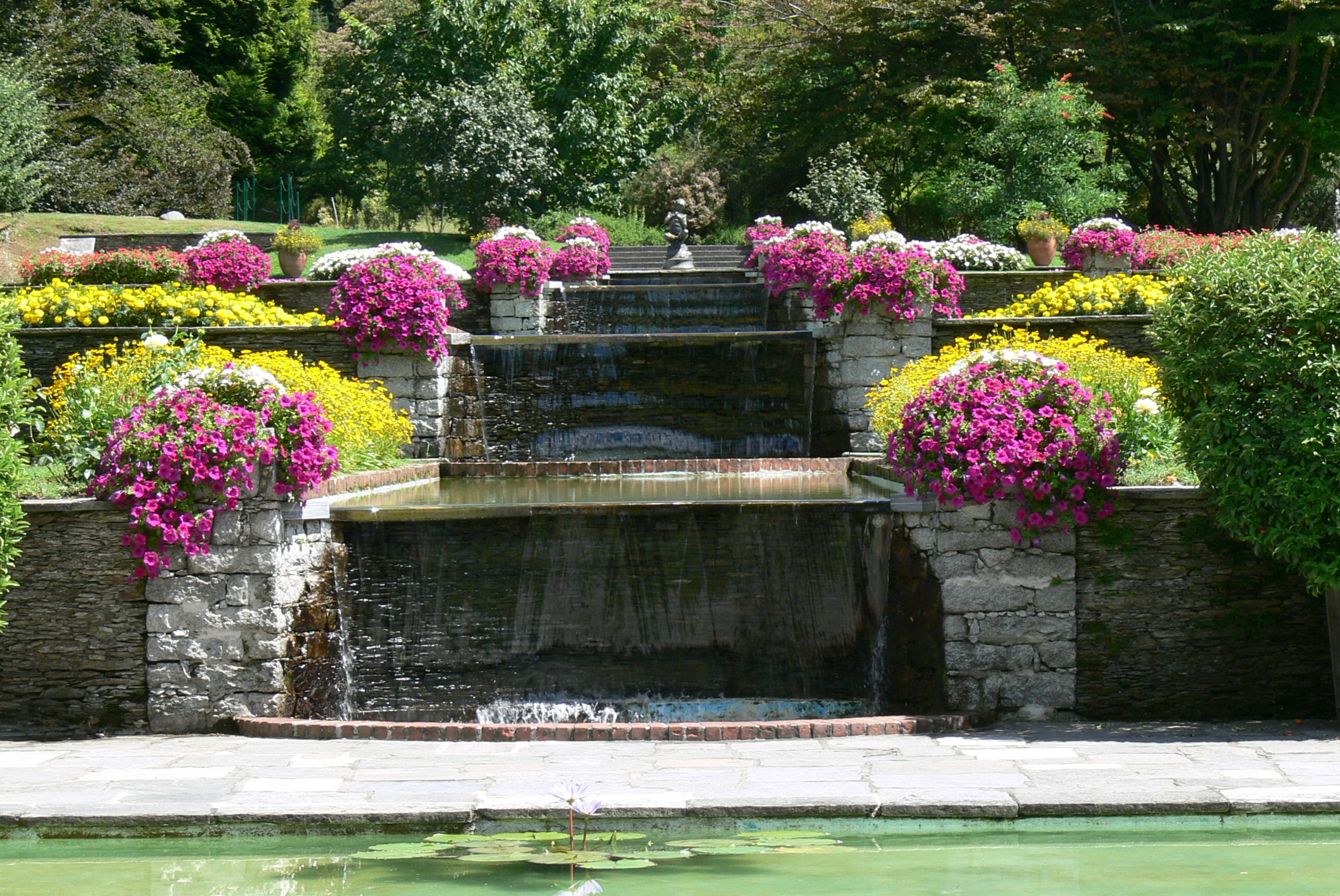 Villa Taranto ( Verbania-Pallanza ). Garden terraces.